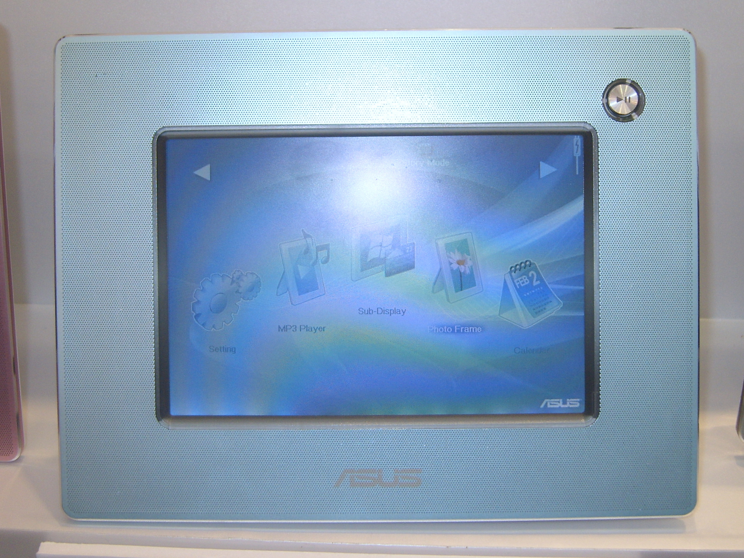 2008 Computex: ASUS Ufoto UF735 Digital Photo Frame.